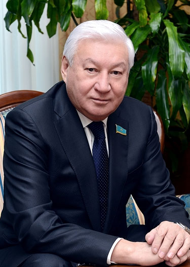 Qabibolla Jaqypov, chairman of Mazhilis from from 3 April 2014 to 25 March 2016.